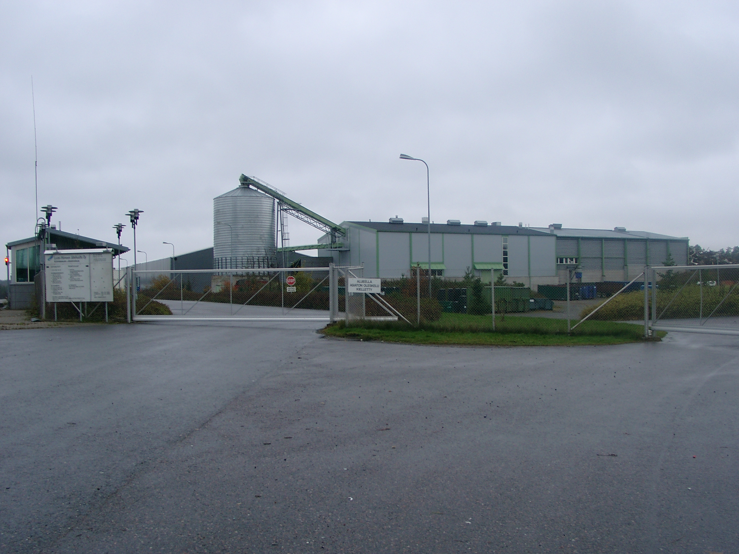 Materials recovery facility